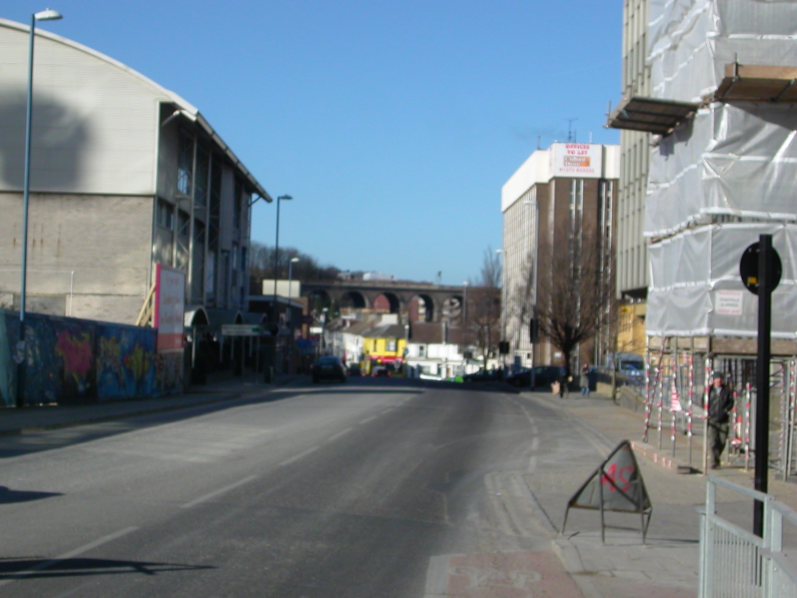 New England Quarter - New England Street looking north from near the Fleet Street junction. Photographed on 3rd February 2007.